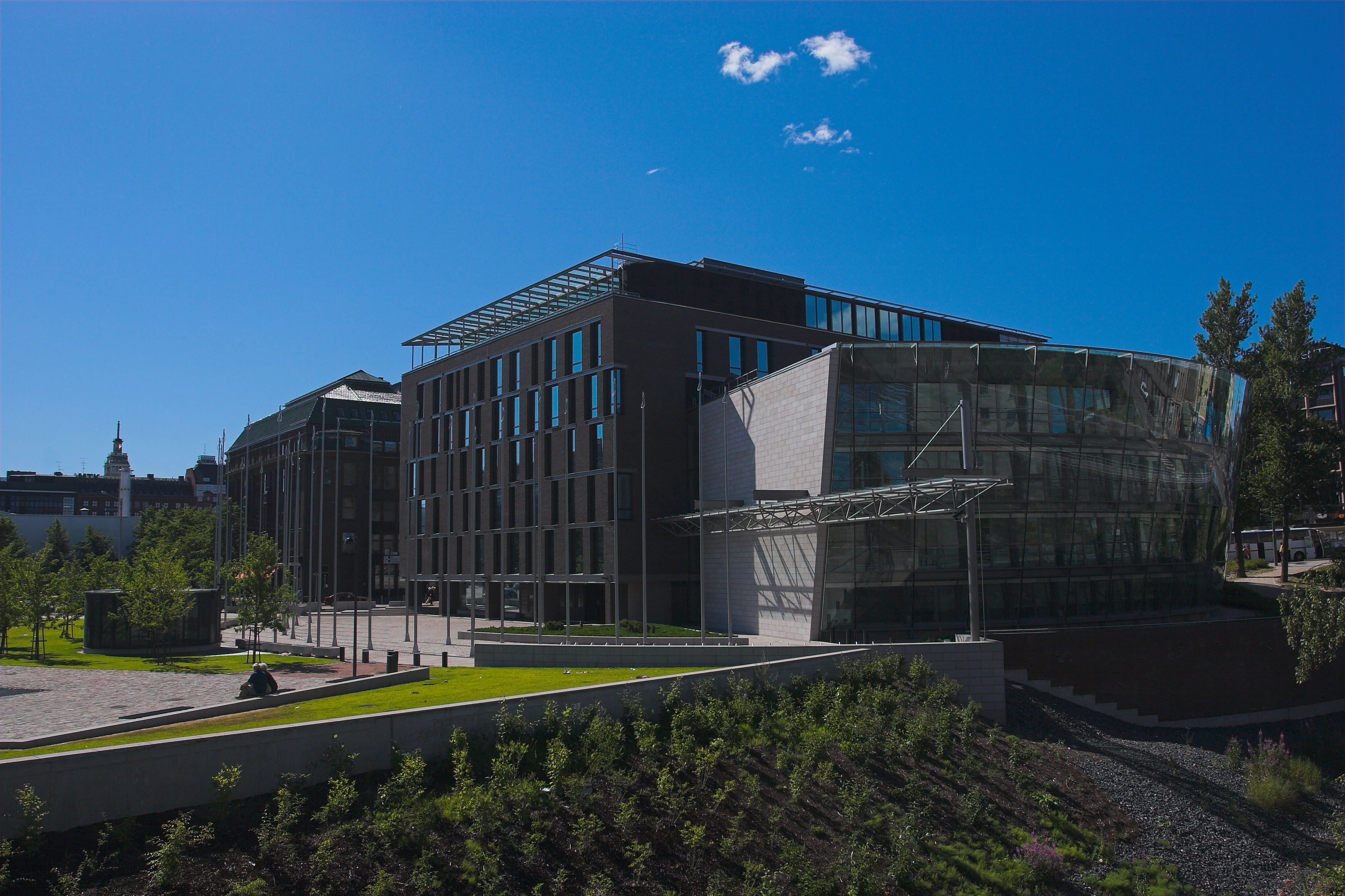 The Finnish Parliament's office block known as "Pikkuparlamentti" (little parliament).